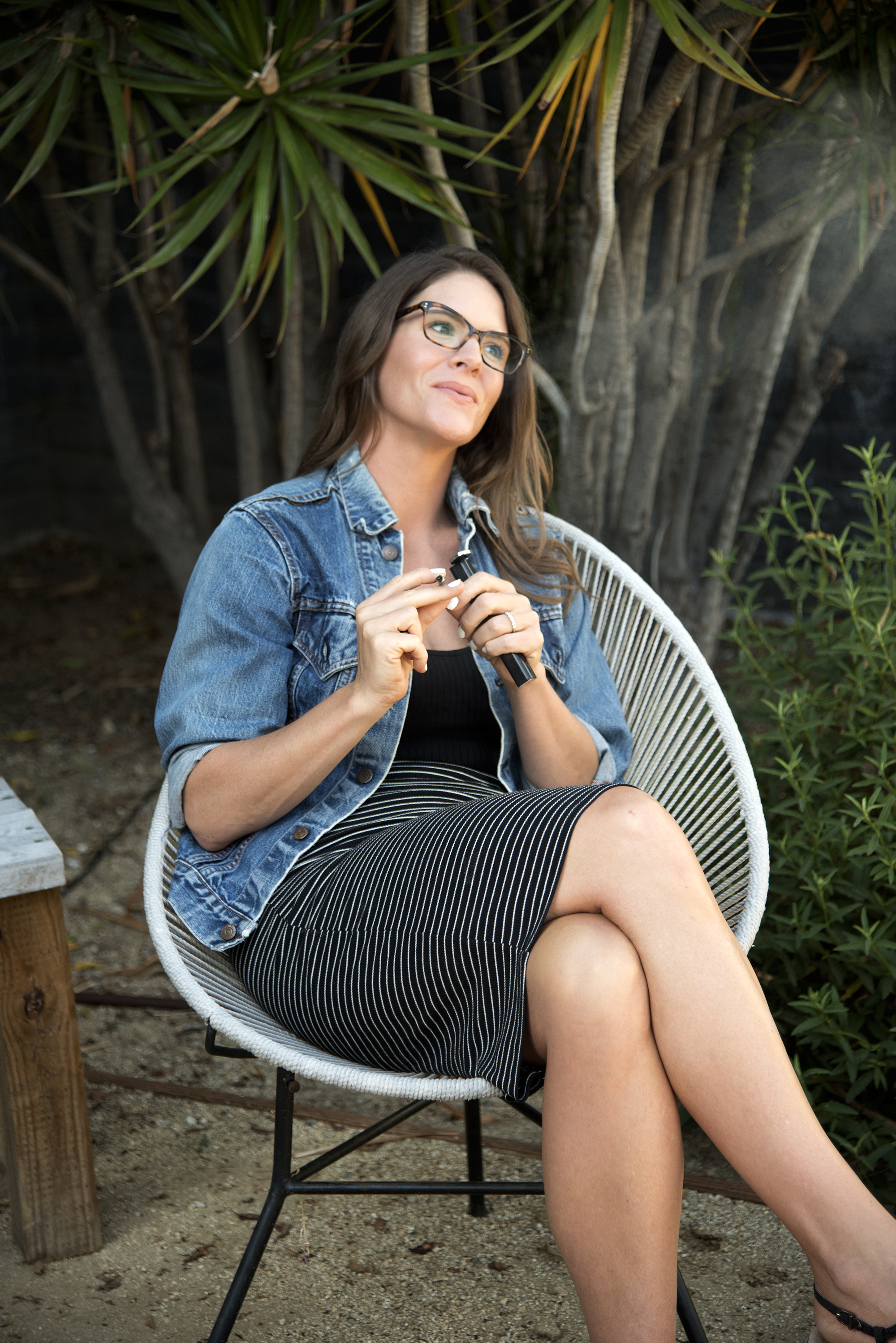 Jane West sitting in a chair outdoors holding The Wand from her Travel Collection.